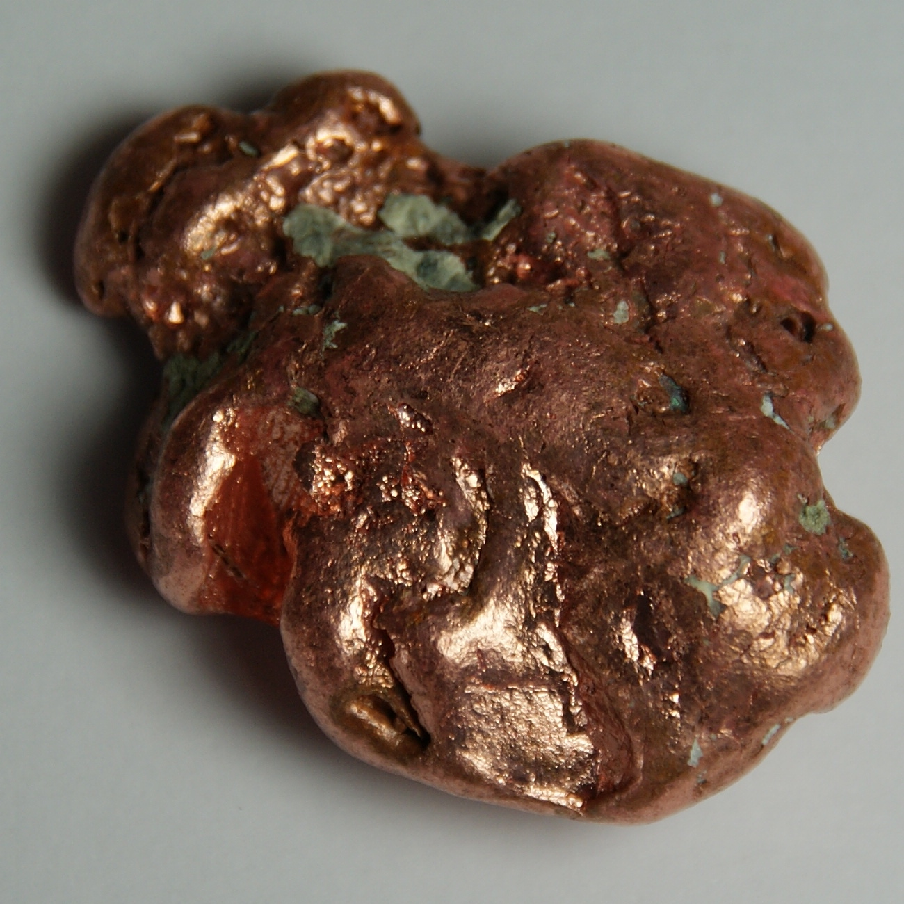 Copper nugget, 44 grams, 2.5 * 3.5 cm.